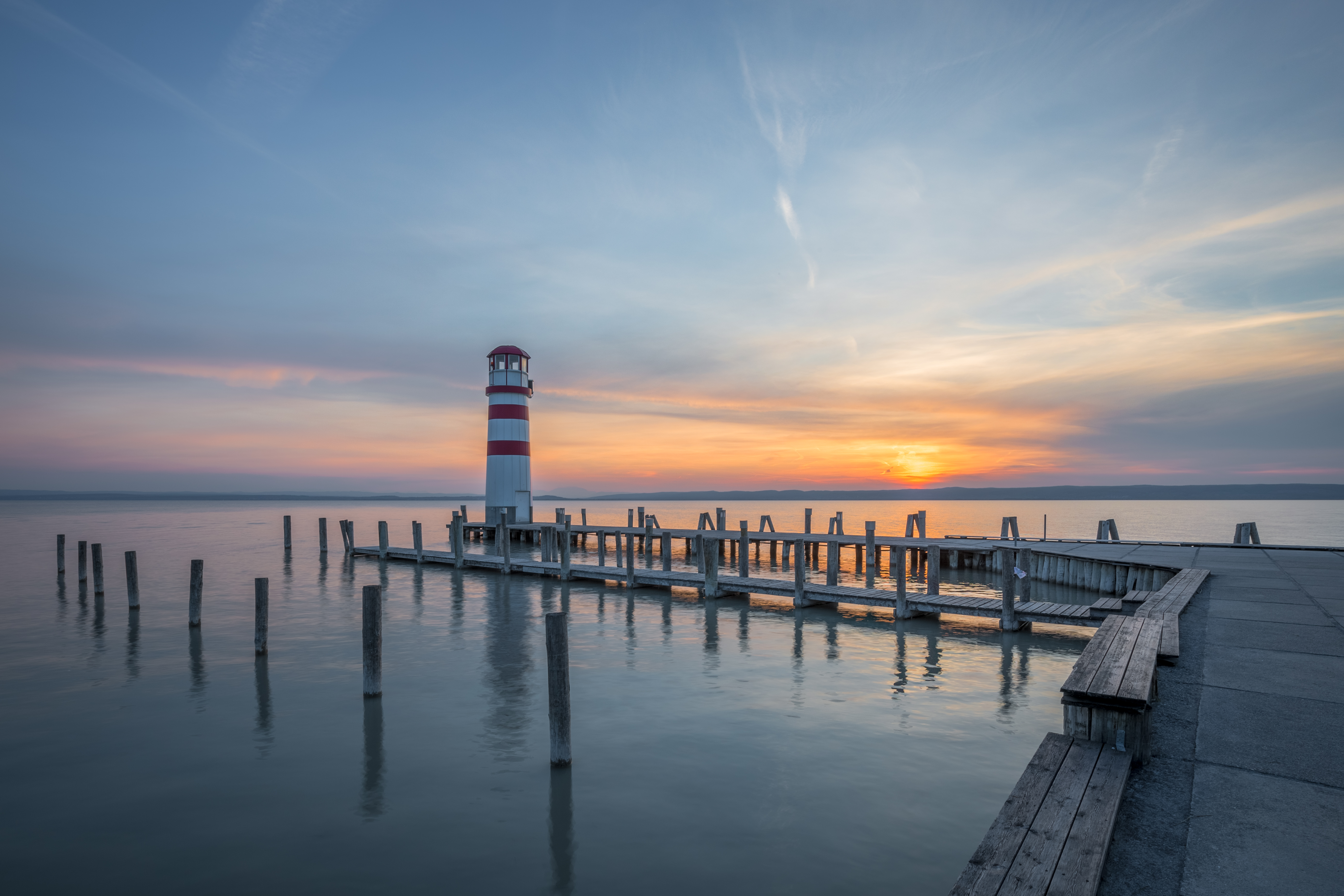 Podersdorf am See, Austria